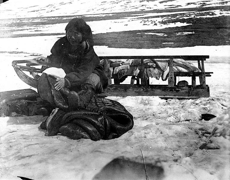 On verso of image: Eskimo woman dressing walrus skin . In Folder 129 Subjects (LCSH): Hides and skins--Dressing and dyeing--Alaska; Eskimo women--Alaska; Eskimos--Alaska; Walrus